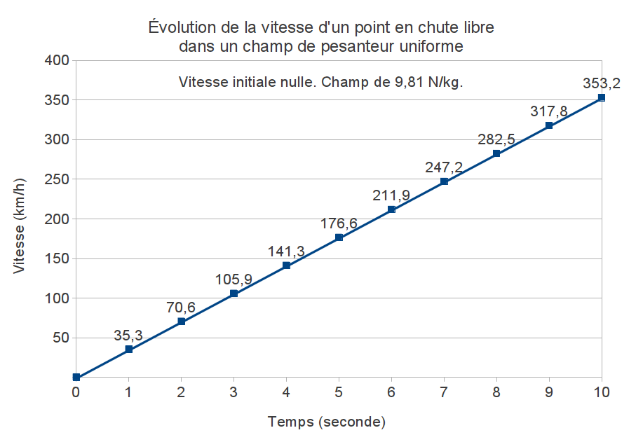 Graph showing the increase in the mass velocity of an object in free fall in a uniform field of gravity of 1 g, in the absence of air resistance and with zero initial speed.